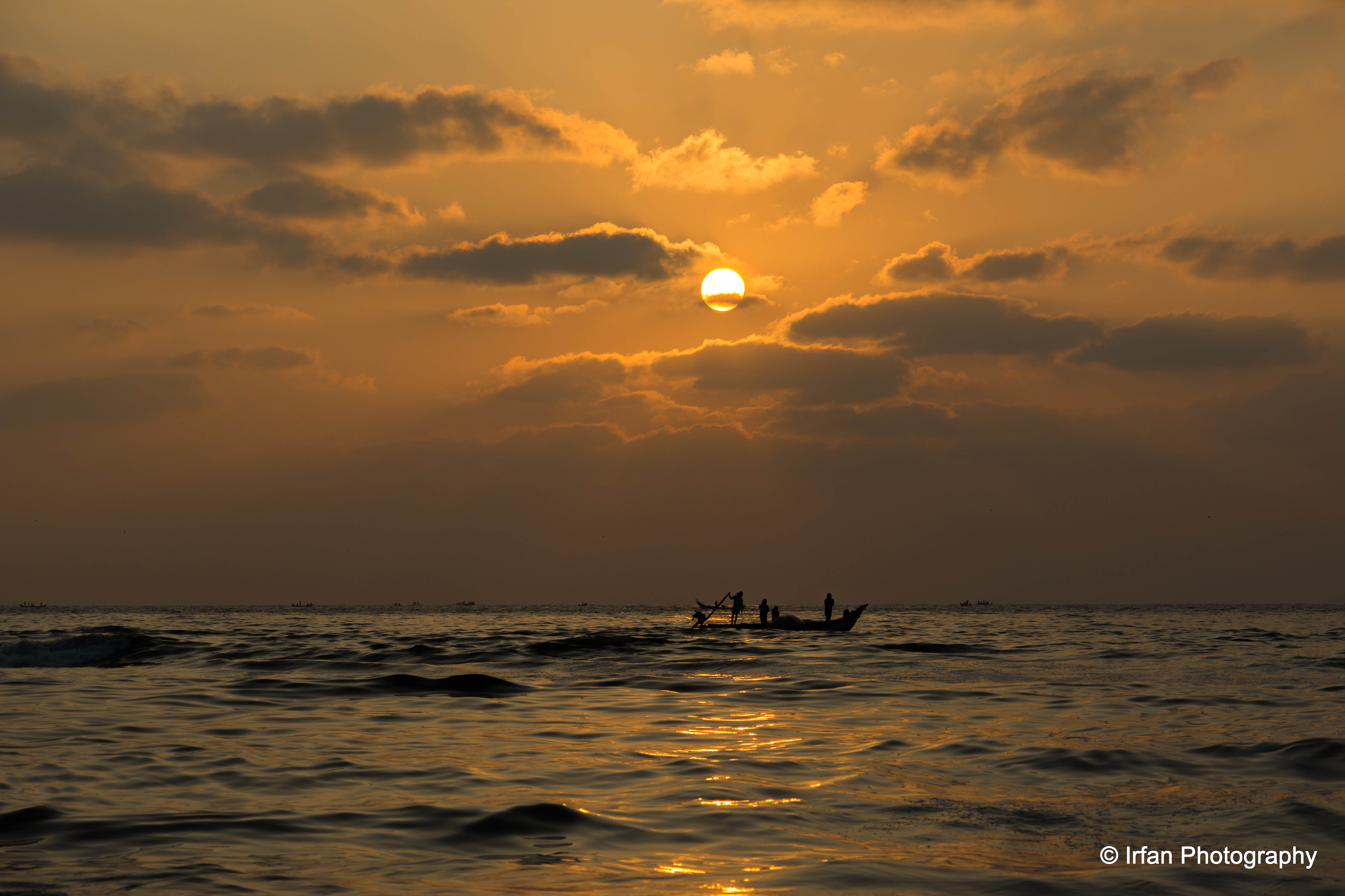 Sunrise at Marina beach, Chennai clicked by Irfan Ahmed Photography